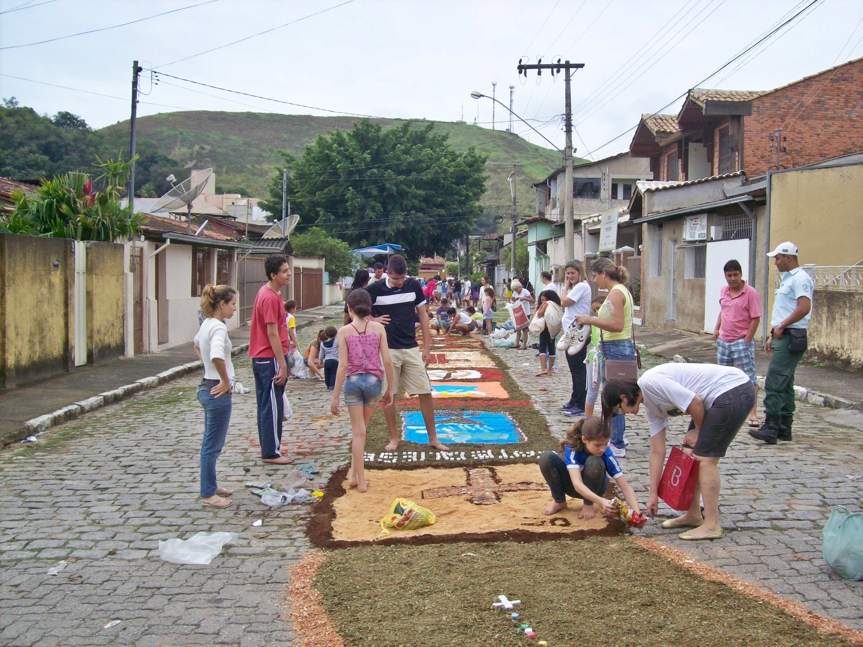 Montage of the Corpus Christi carpet of the Saint Sebastian Parish in the Professores neighborhood, in Coronel Fabriciano, Minas Gerais, Brazil.